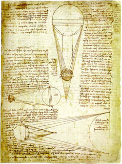 Astronomical notes